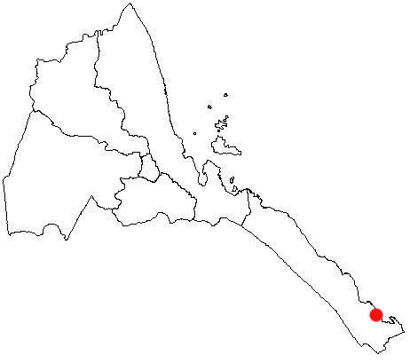 Assab, Eritrea Location Map; created with the GIMP. Made by Acntx.